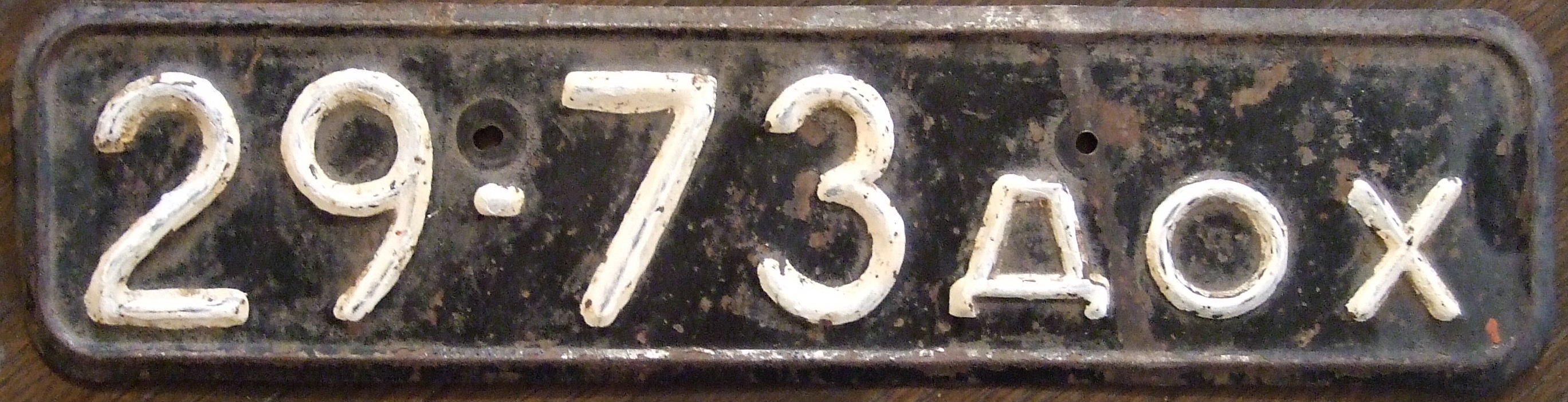 Donetsk was a predominantly Russian city in the Ukraine during the USSR period. A large amount of Russians moved there during the Soviet industrial age turning a village into a city of 1,000,000 by the time of the Soviet collapse. Today tension between Russians and Ukrainians is high in Donetsk.